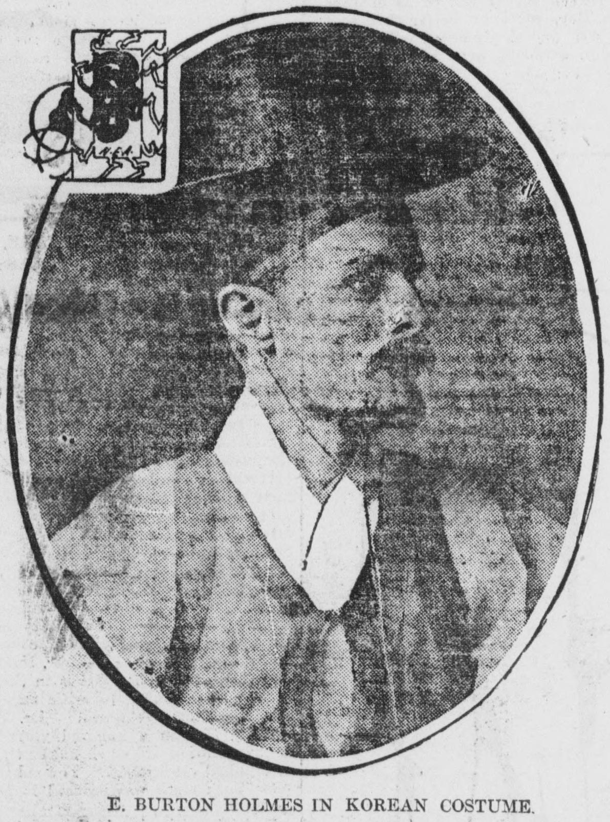 in 1904, Elias Burton Holmes was a world traveler.